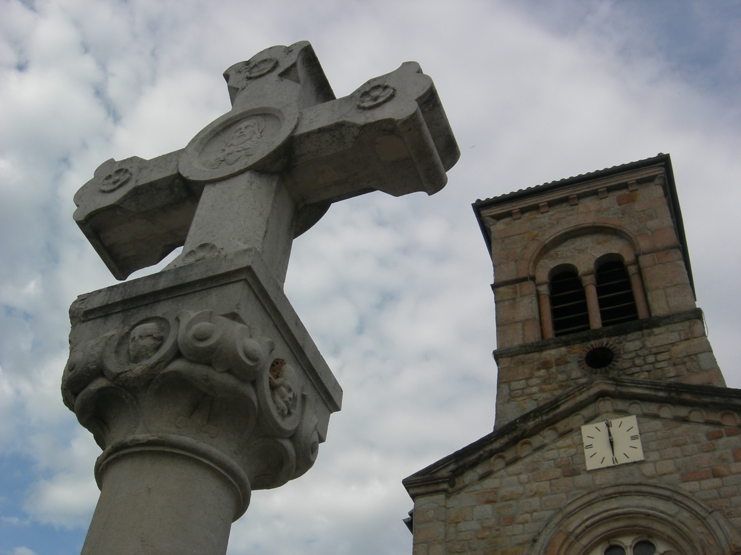 saint priest church